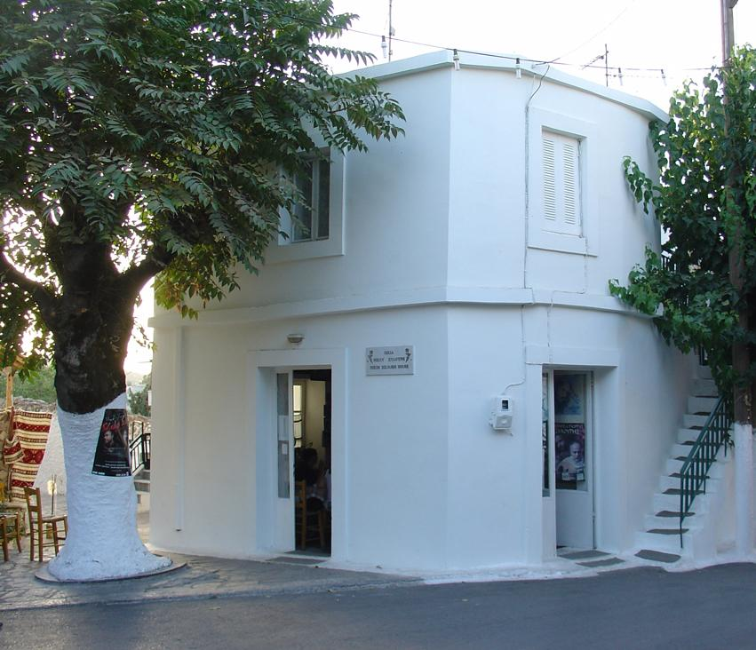 The House of Nikos Xylouris, Anogia Crete